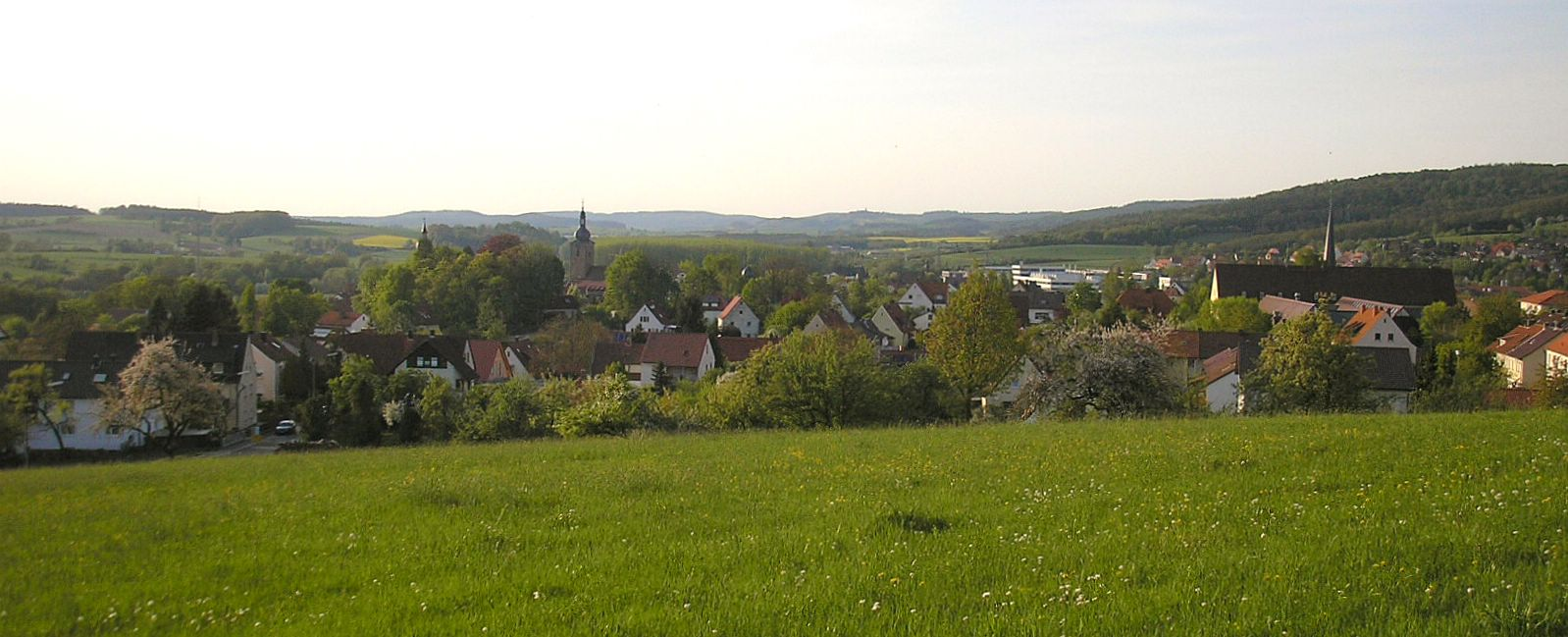 Ebern (Landkreis Haßberge, Lower Franconia, Bavaria, Germany). View from the Losberg